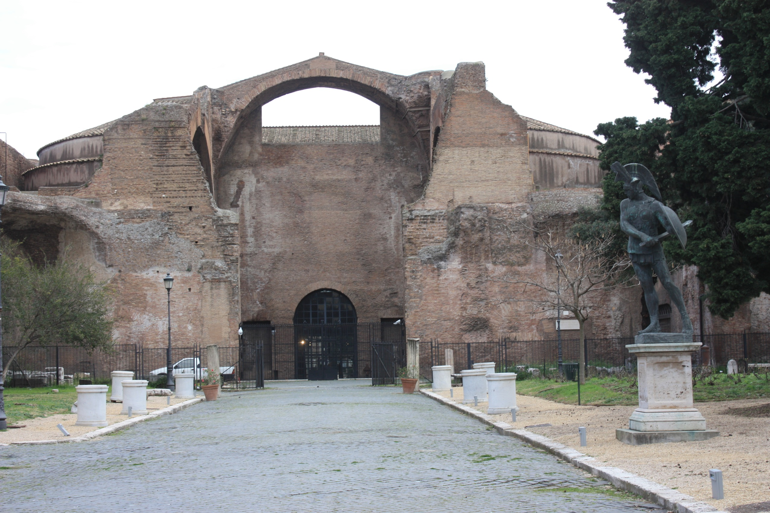 Rome, the Baths of Diocletian